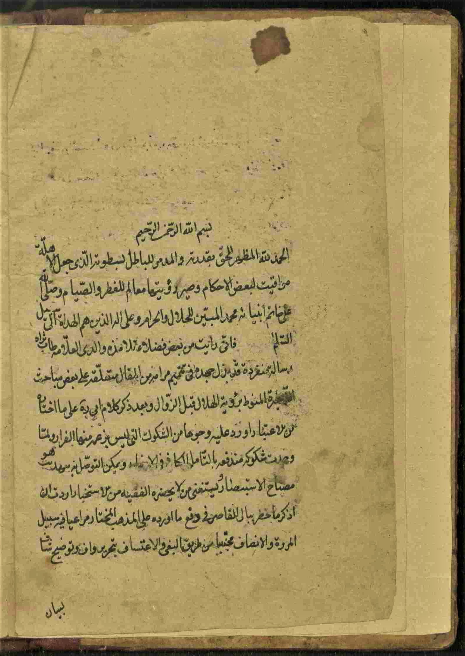 Islamic Manuscript Author: Muhammad Jafar Sabzevari (? - 1722 / ?-1135 A.H.) Central Library and Documentation Center of the University of Tehran Number: 1866